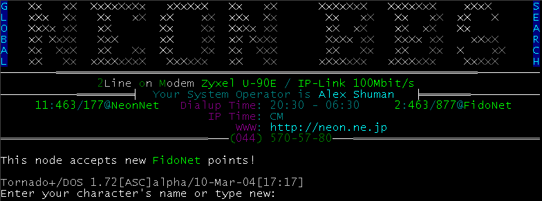 Neon_#2 BBS running opensource Tornado BBS software